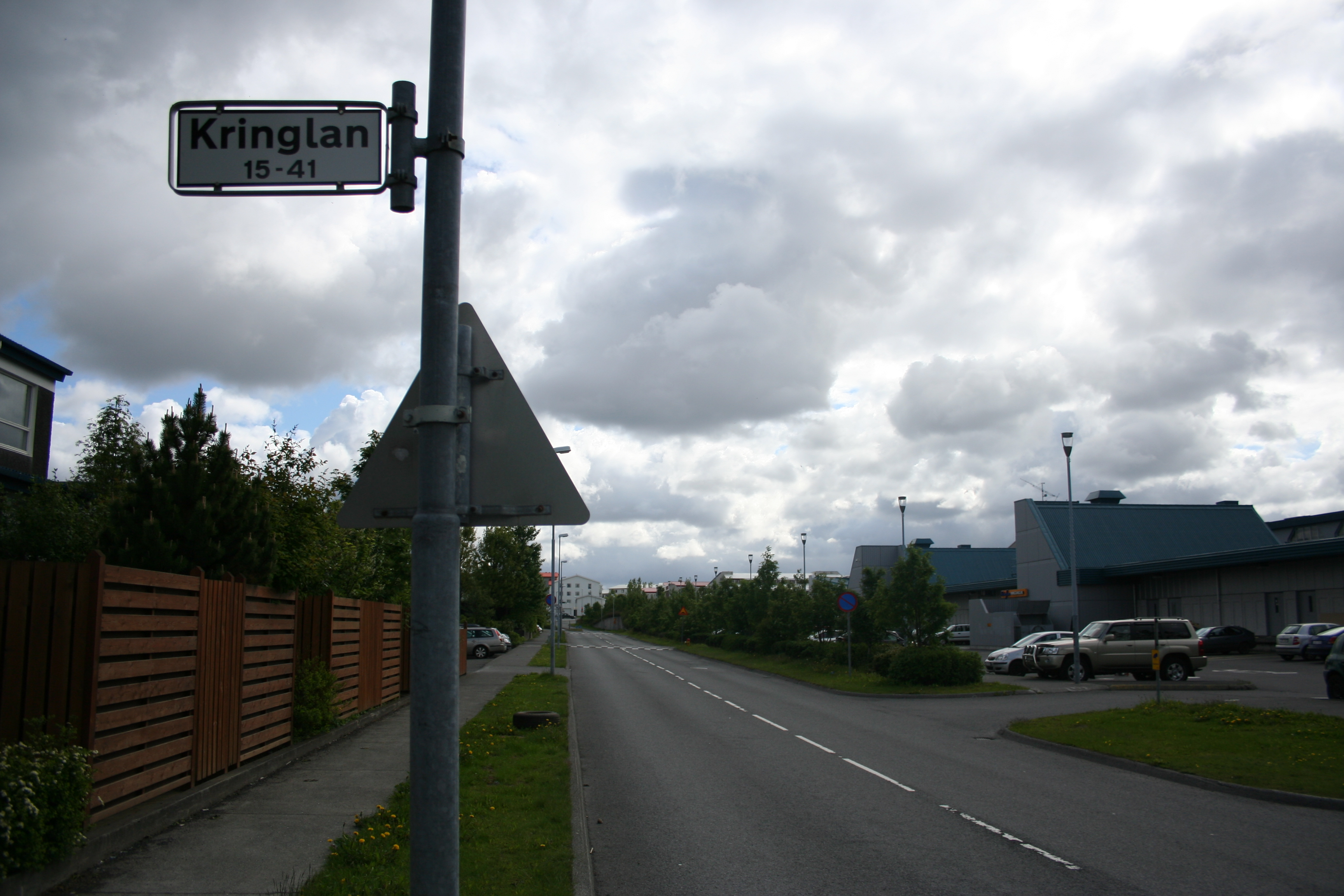 A picture of the street Kringlan in Iceland. The shopping mall Kringlan is to the right.